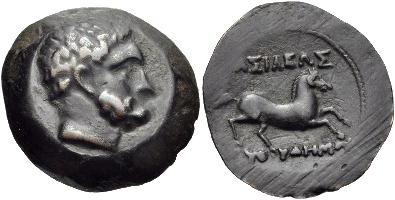 Euthydemos I Ai Khanoum mint